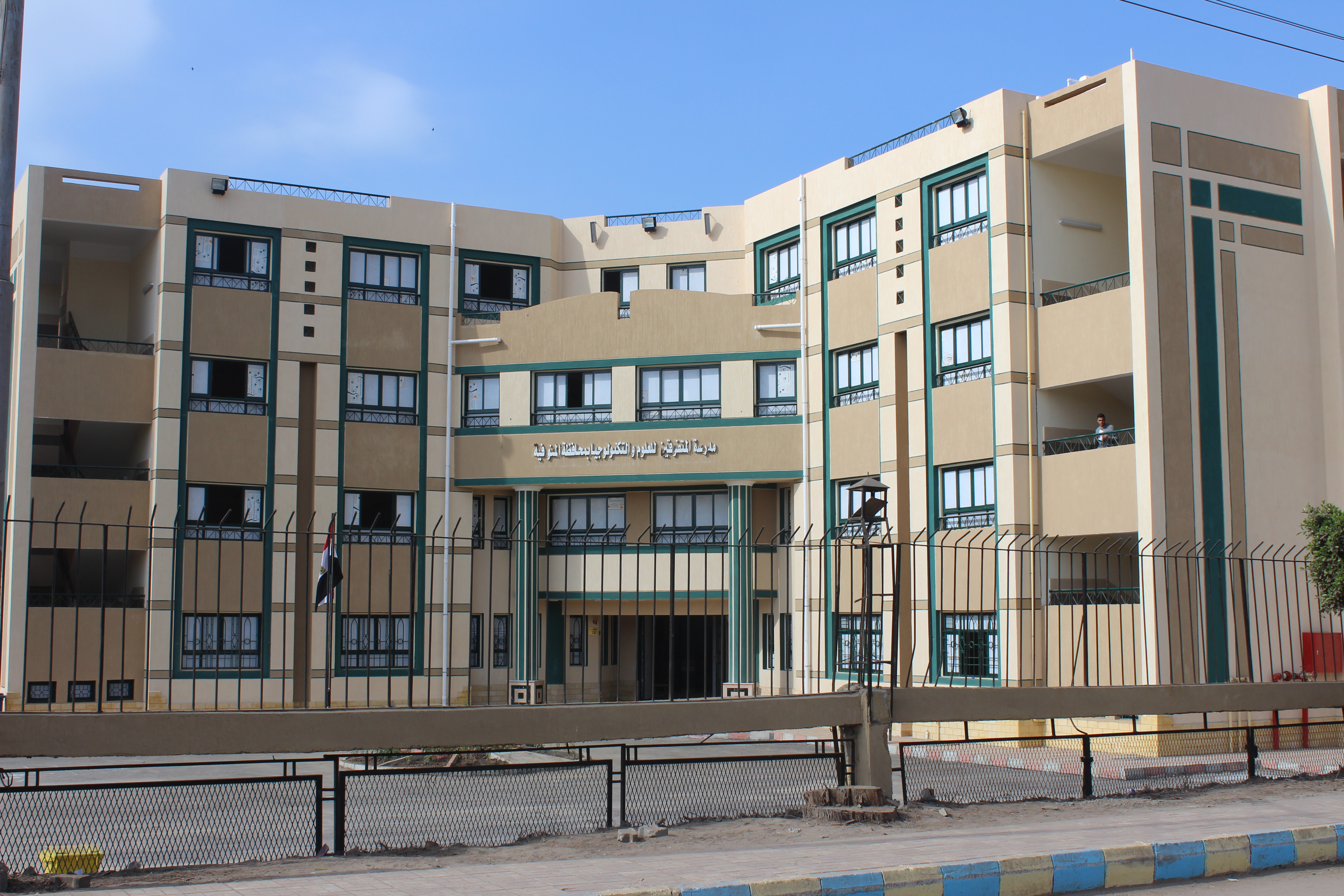 Stem school in Sers El Layan